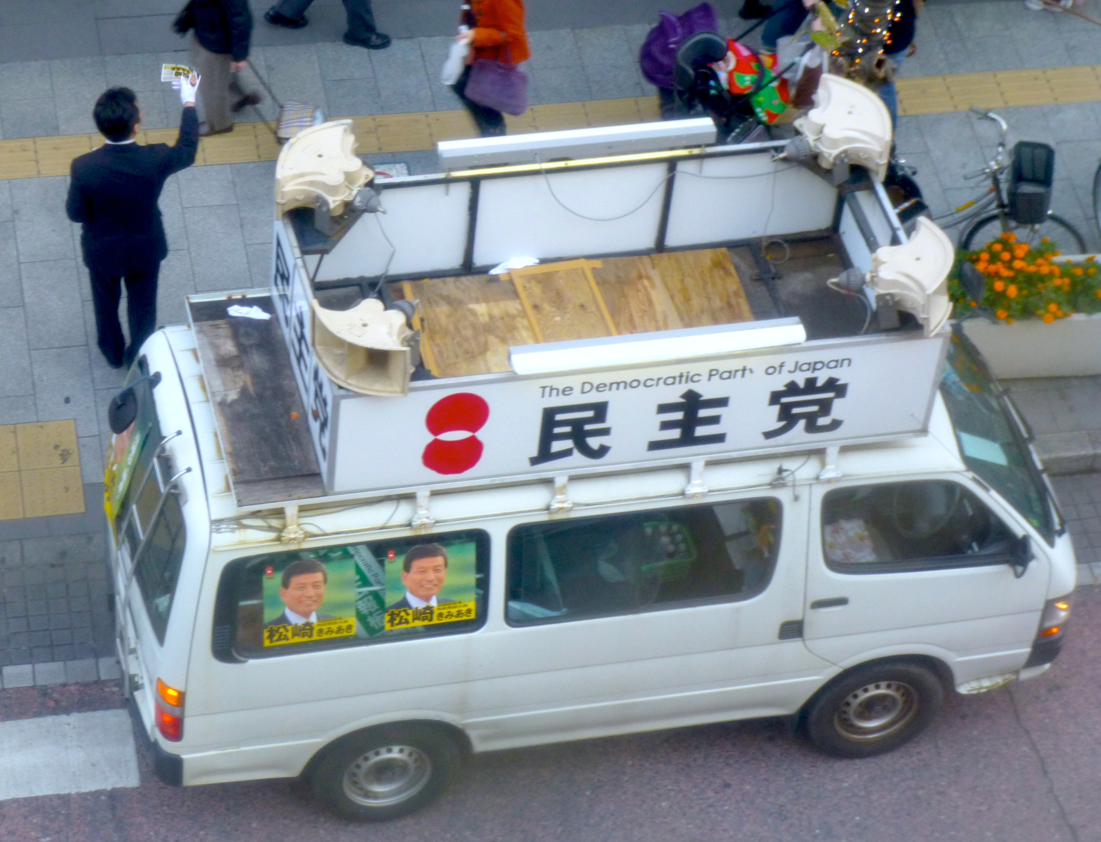 campaign van for democratic party of japan